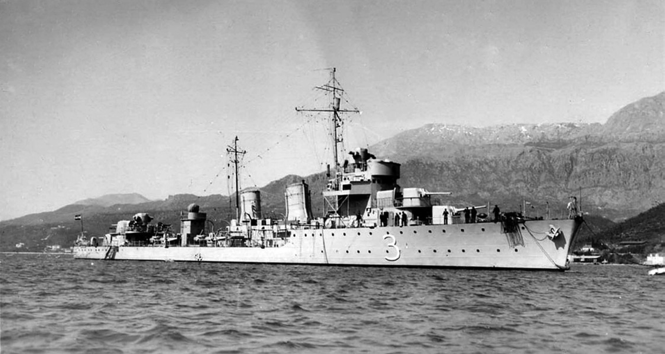 Yugoslavian destroyer Zagreb in Bay of Kotor Аҧсшәа: Југословенски разарач Загреб у Боки Которској